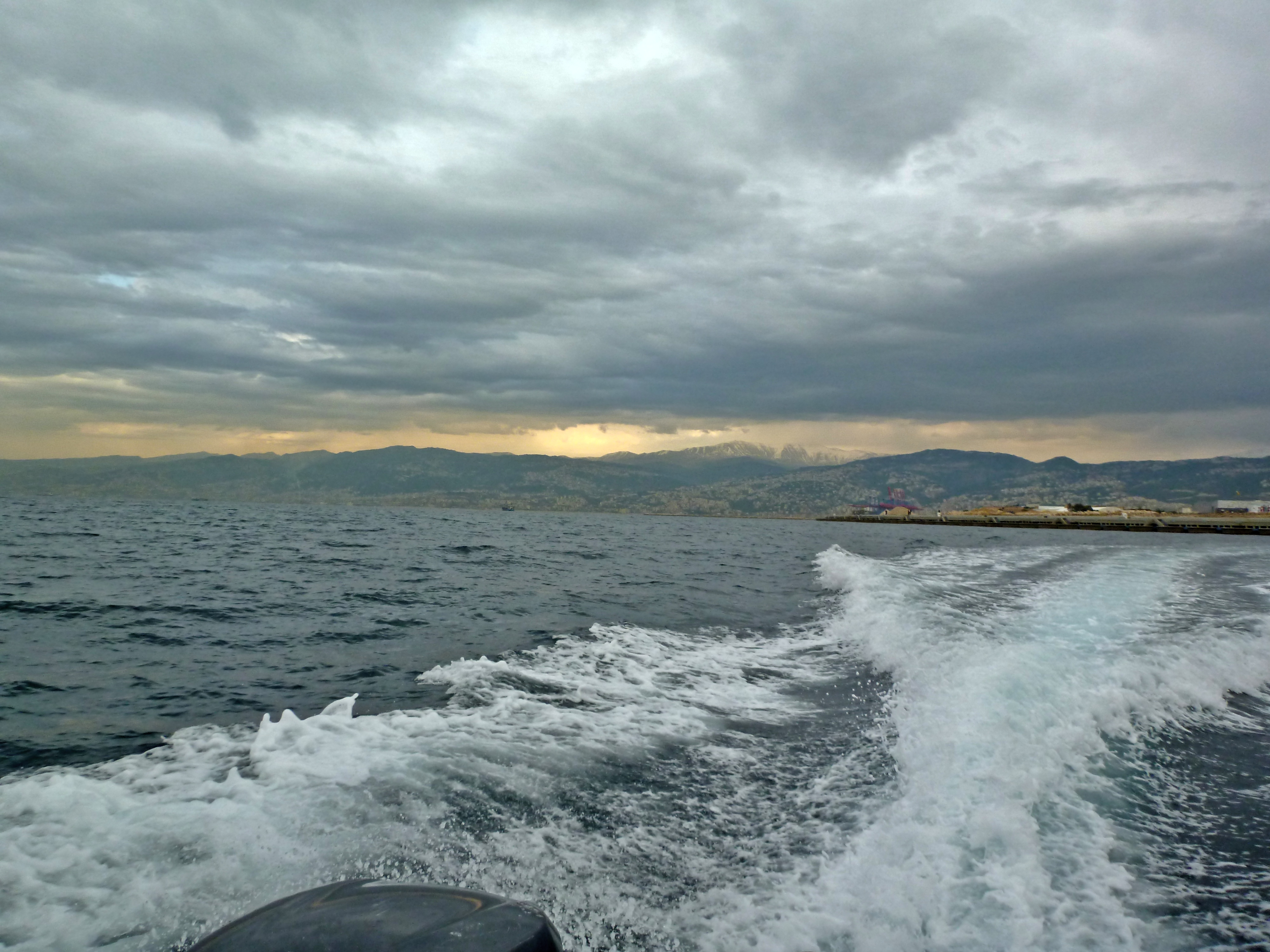 Saint George Bay,in background the snow covered Mount Sannine and Mount Lebanon